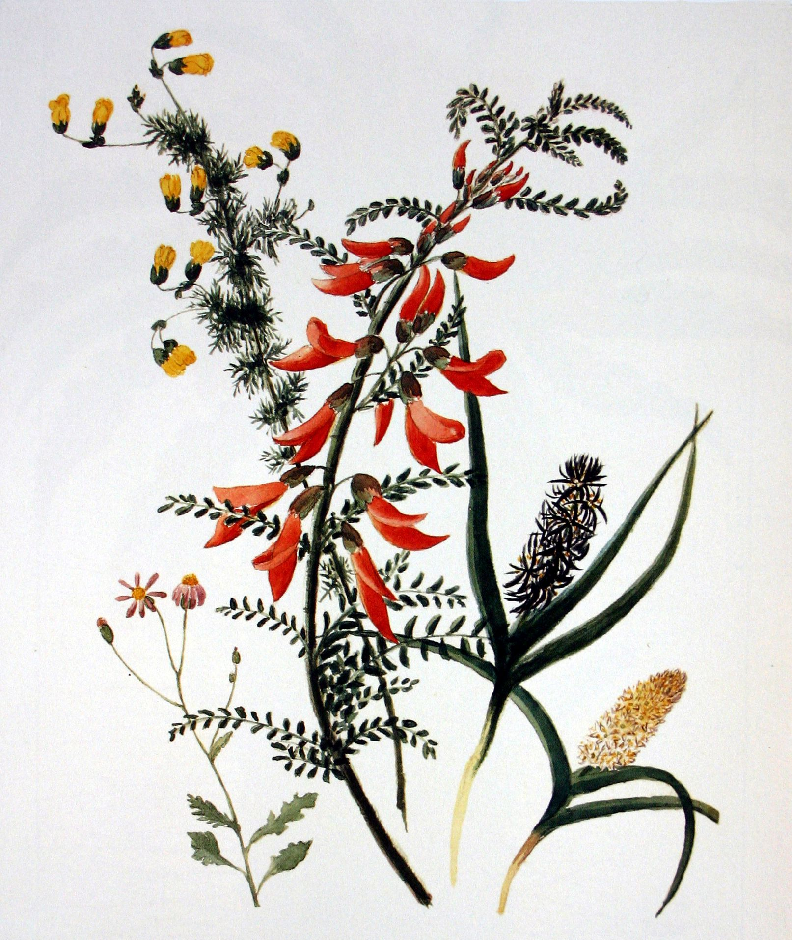 Cape flowers, Anna Maria Truter (Lady Barrow), Sutherlandia frutescens, 2 species of Wurmbea, Hermannia pinnata and a small Senecio, c1800, pencil and watercolour